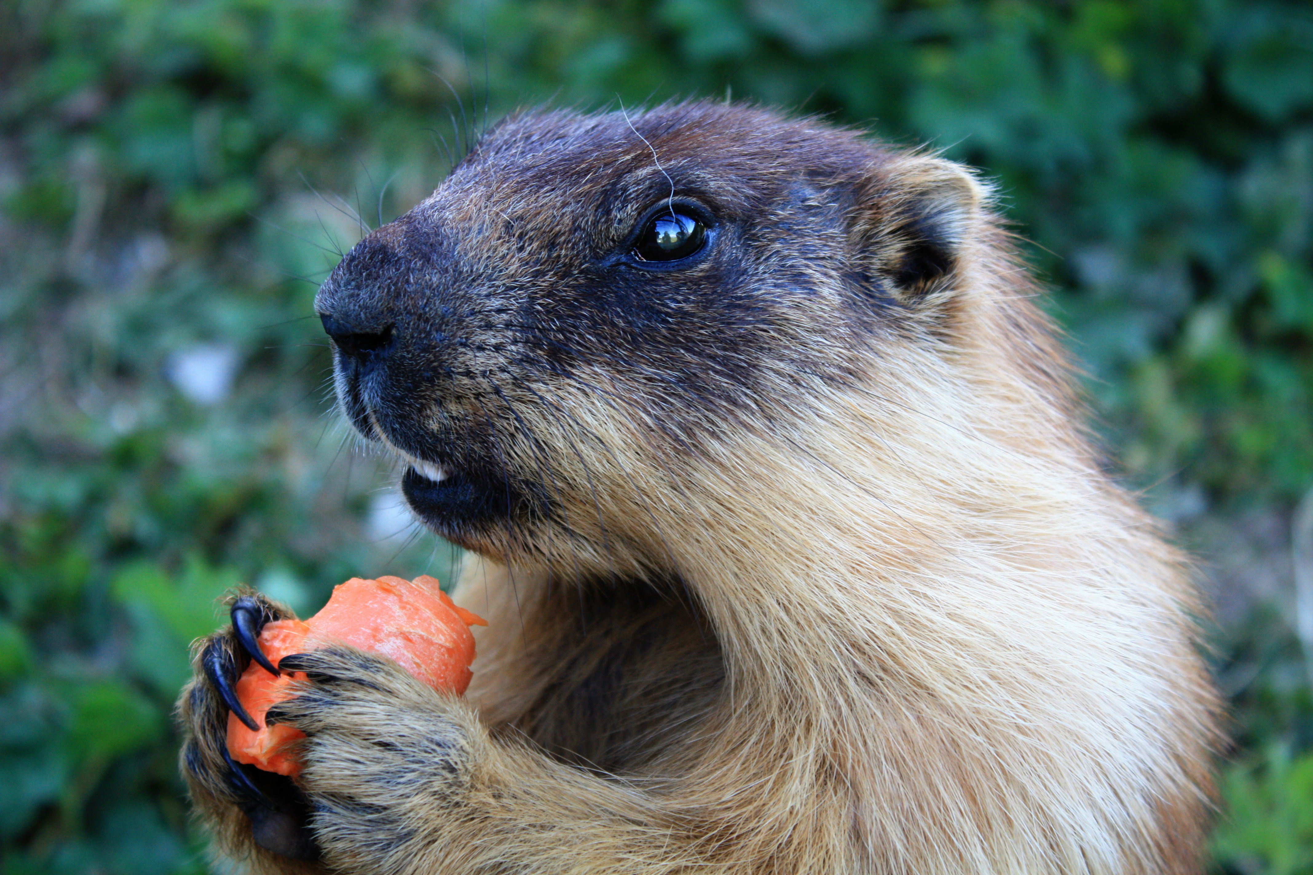 Marmota sibirica - (Russia, Mongolia) - Rochers-de-Naye, Switzerland, 2009